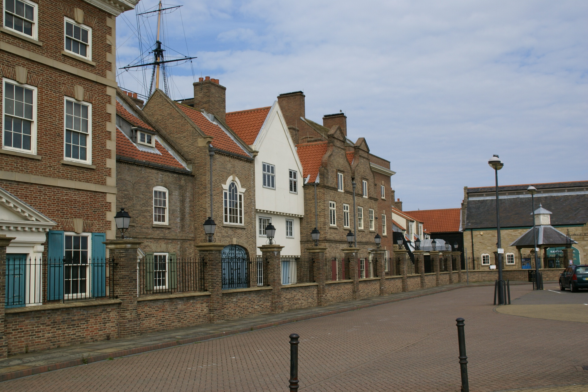 Hartlepool, GB